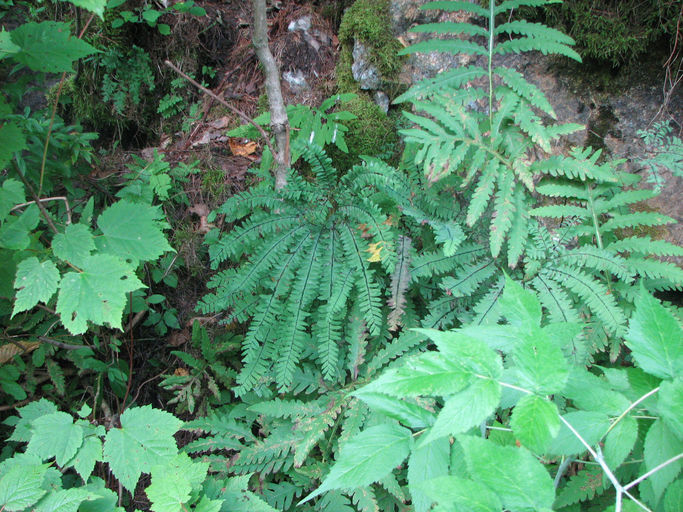 Adiantum viridimontanum growing in a road cut in Lowell, Vermont.